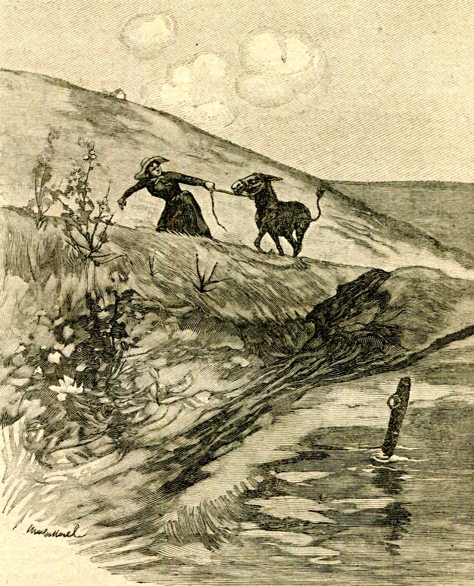 Illustration for the story "The Donkey" by G. de Maupassant (from the collection "Miss Harriet")